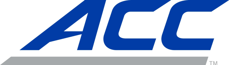 New logo unveiled by the ACC, starting in 2014.